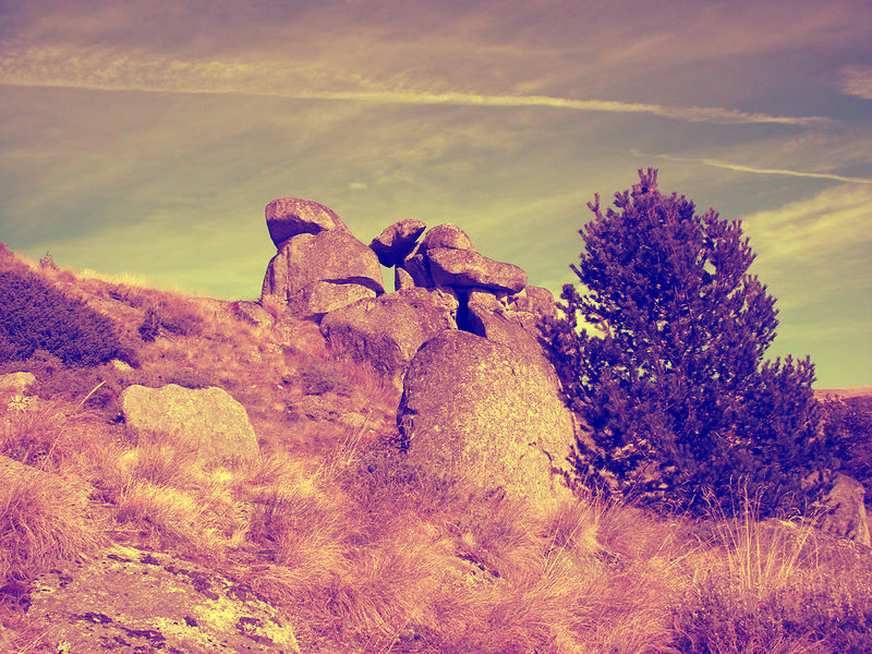 Carev peak overview Rila